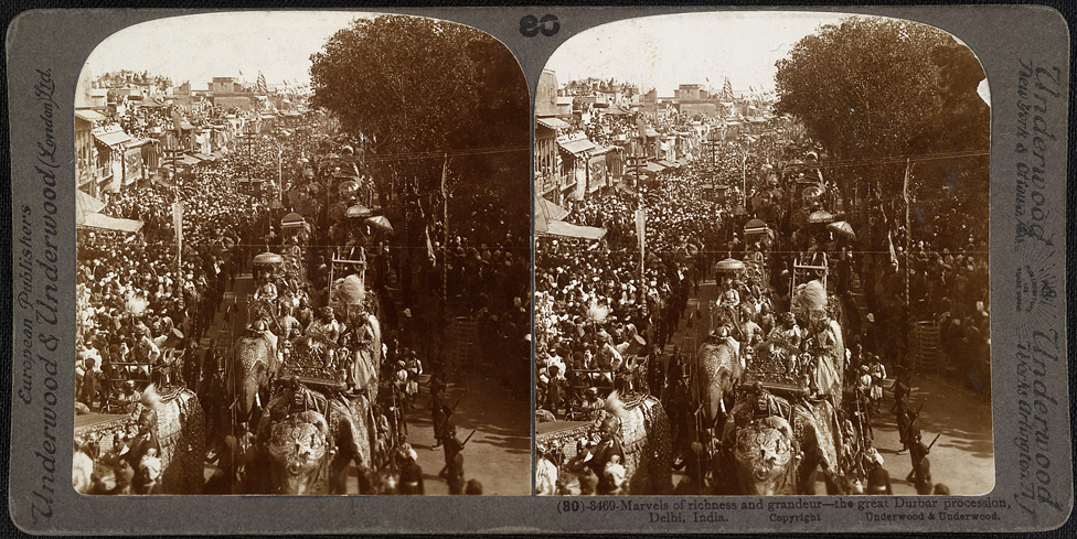 Durbar Procession in 1903, twin images meant to be seen through binoculars to create 3-d effect!